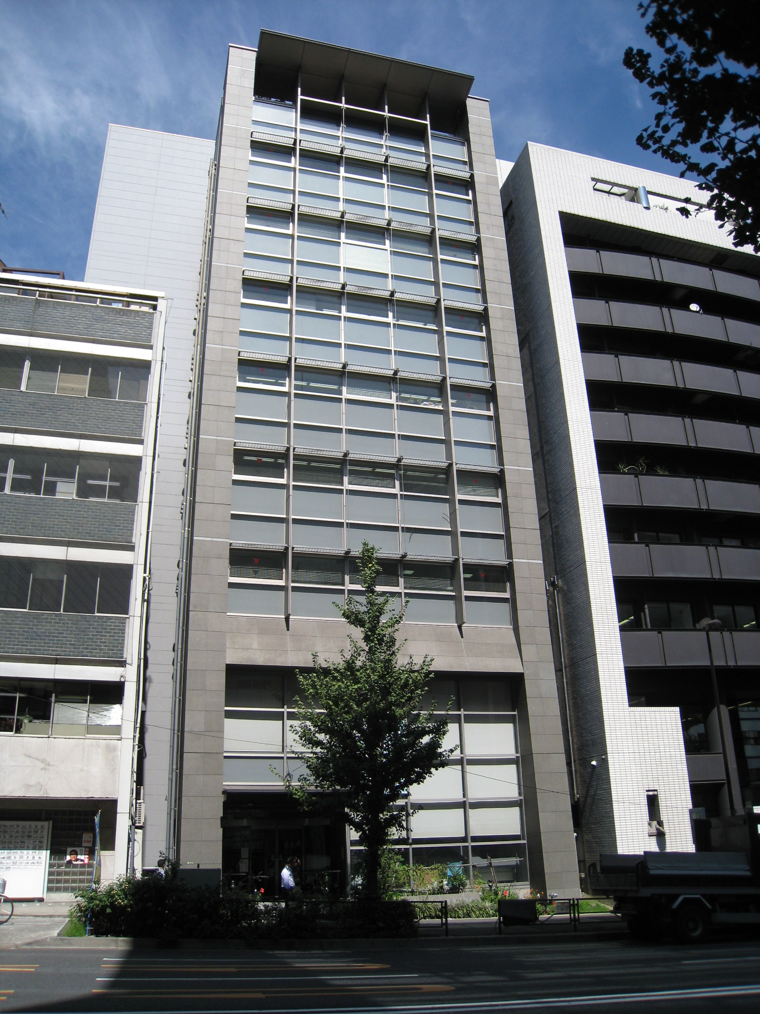 Zenrouren Kaikan, at Yushima, Bunkyo, Tokyo, Japan